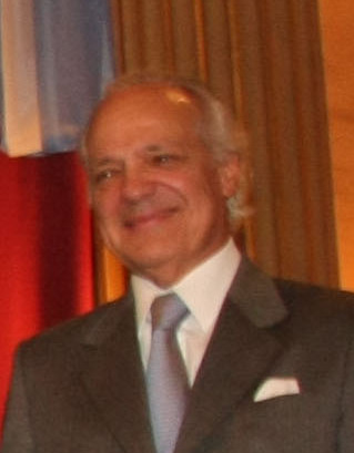 Buenos Aires Mayor Mauricio Macri (third from right) presents the Bicentennial Medal on October 26, 2010, to the presiding judges in the historic 1985 Trial of the Juntas. From left: Jorge Valerga Aráoz, Ana D'Alessio (widow of Judge Andrés D'Alessio), Ricardo Gil Lavedra, León Arslanián, Mayor Macri, Jorge Torlasco, and Guillermo Ledesma. Photo: Mariana Sapriza for the City Government of Buenos Aires.